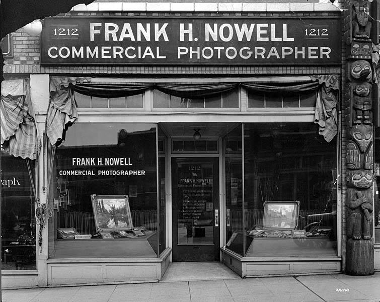 Caption on image: 26393Frank Nowell moved his photography studio from Nome to Seattle in 1909. (pg. 31) Notes from Biographies of Western Photographers by Carl Mautz (Nevada City, CA:Carl Mautz Publishing 1997) Subjects (LCTGM): Photographic studios--Washington (State)--Seattle